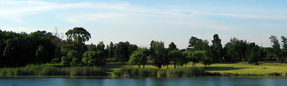 Middle lake, Benoni- photographed from N12 facing S-W